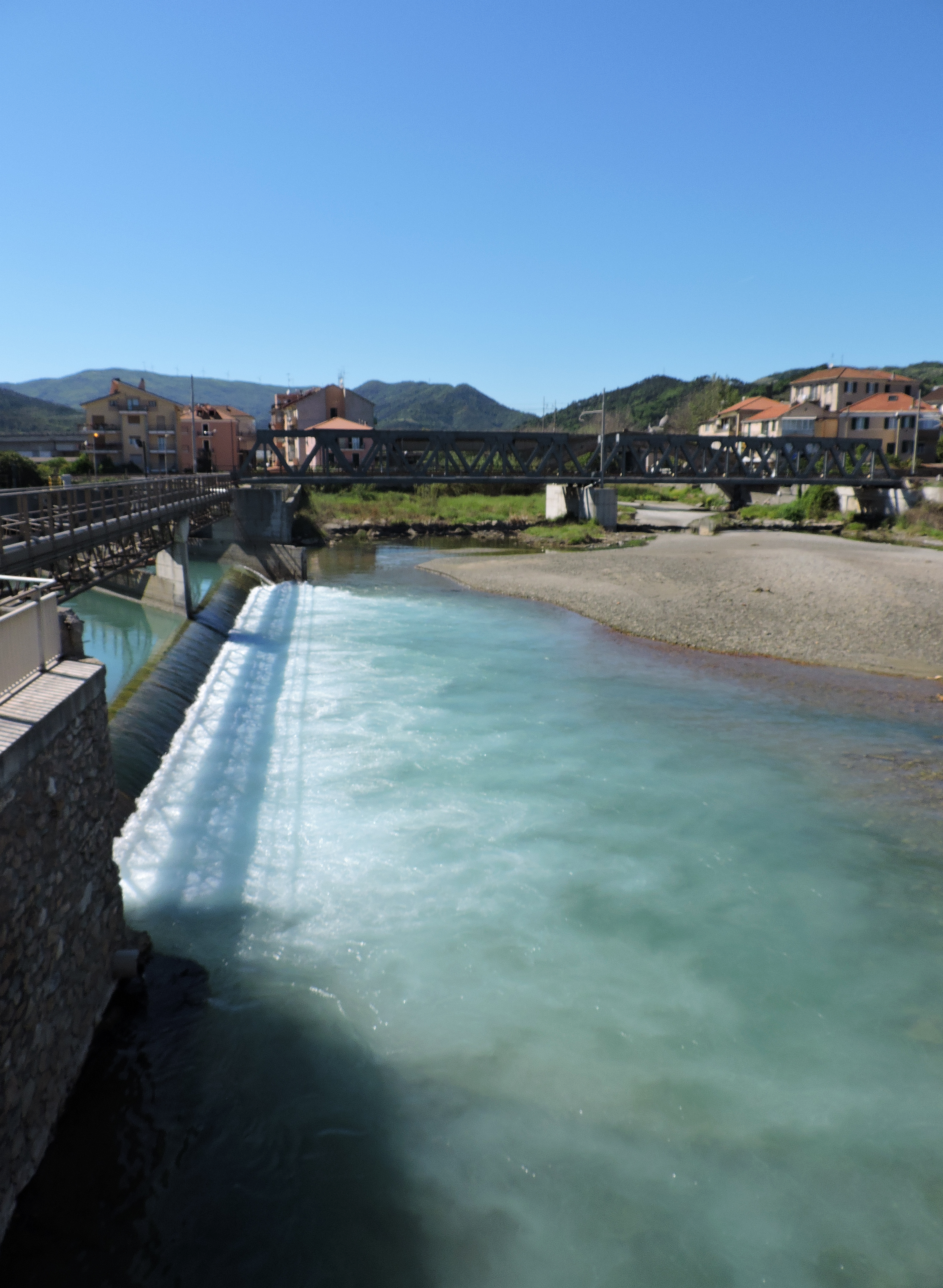 Torrente Quiliano (Liguria, Italy): cooling water drain of the thermoelettrical power plant of Vado Ligure